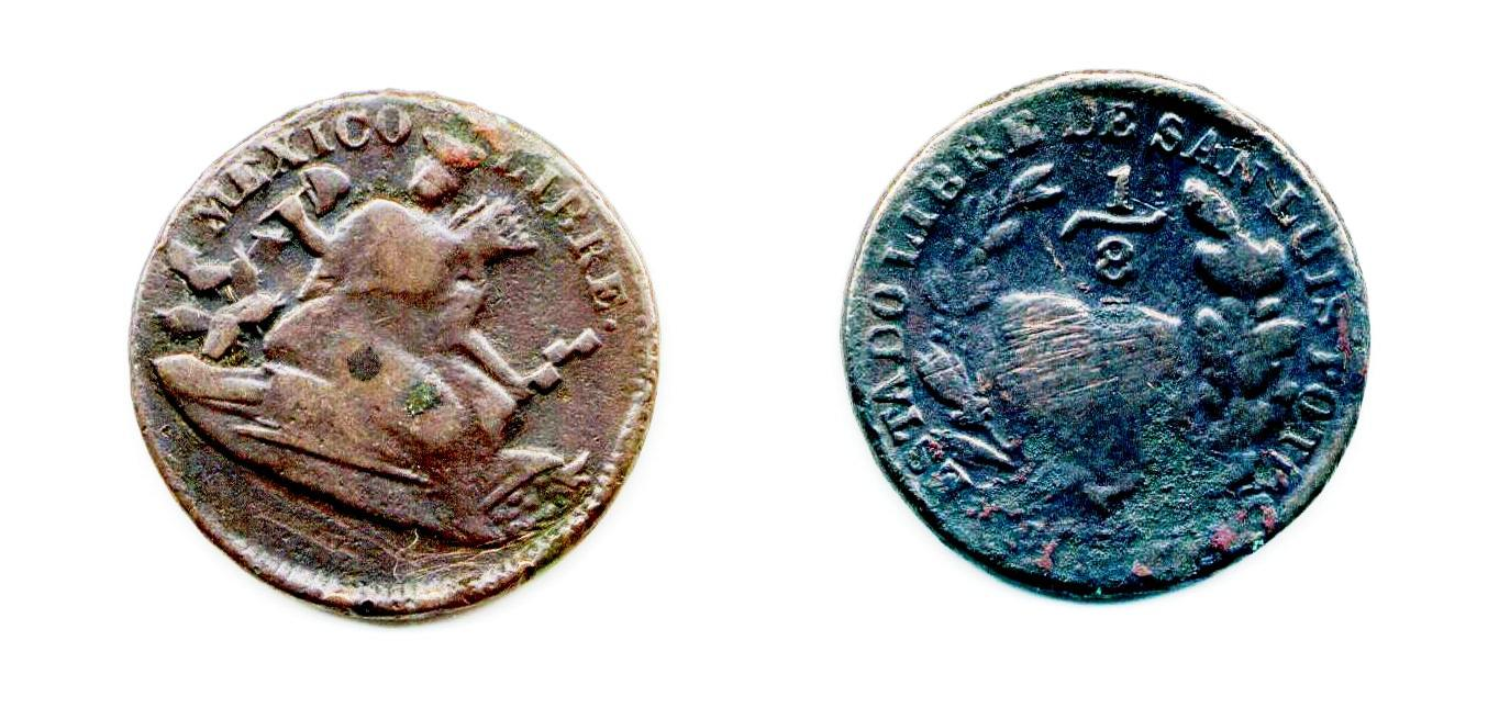 Moneda de 1/8 de real acuñada en el Estado de San Luis Potosí, México en 1859.